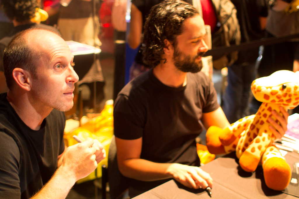 Bruce Straley and Neil Druckmann at PAX Prime 2014.